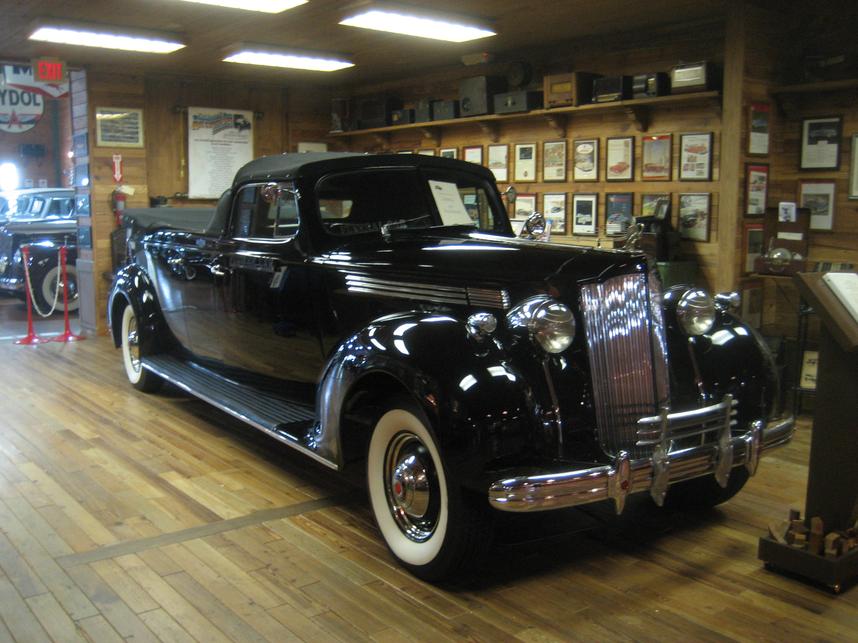 1938 Packard Eight 886 Henney "Flower Car" (Hearse) On display at Fort Lauderdale Antique Car Museum.